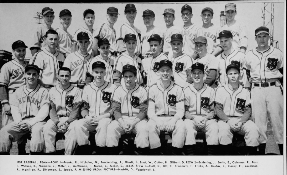 1954 University of Cincinnati baseball team photo with Sandy Koufax.